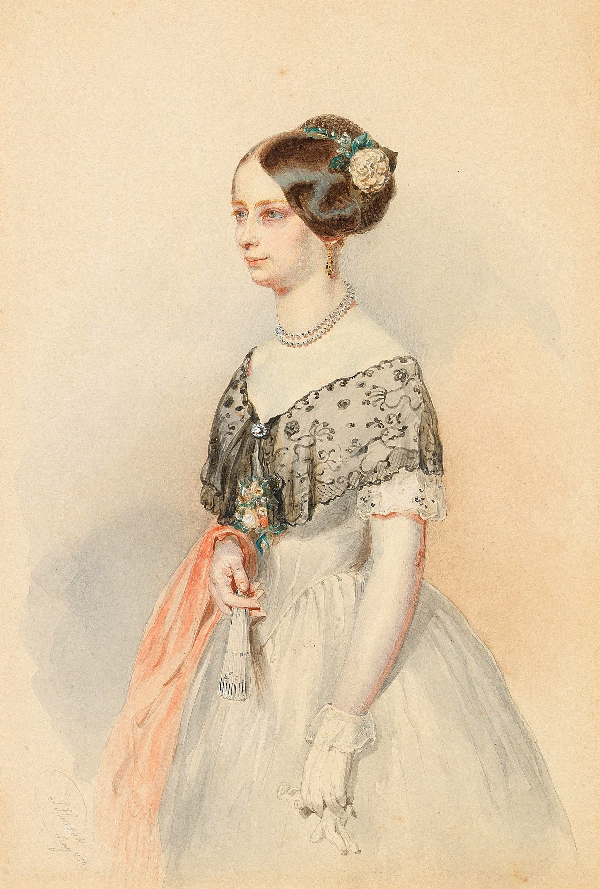 A portrait of Archduchess Elisabeth Franziska Maria from Austria